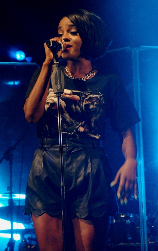 Mutya Keisha Siobhan performing at Manchester Pride on Sunday 25th August 2013